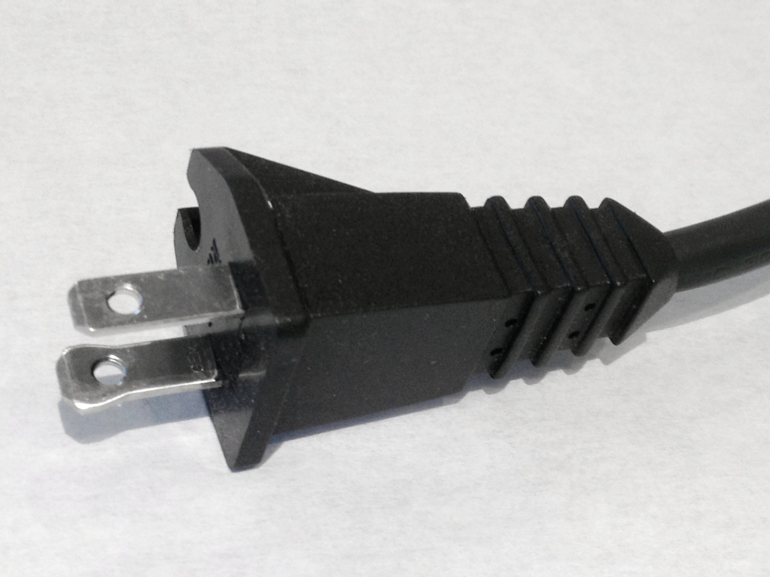 A polarized NEMA-1 plug on an electric drill